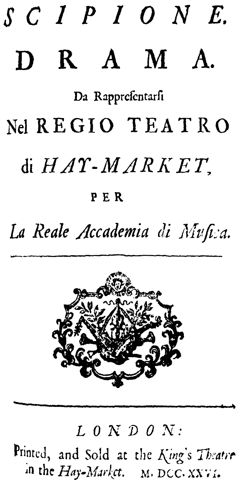 Georg Friedrich Händel - Scipione - title page of the libretto - London 1726